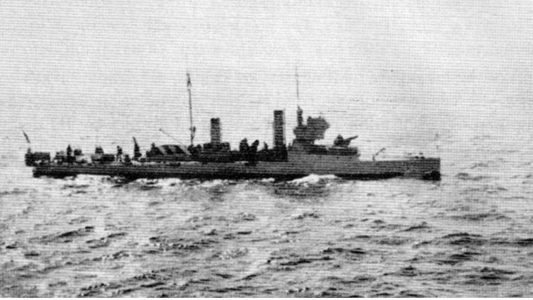 Swedish Torpedo boat Vega (1910)